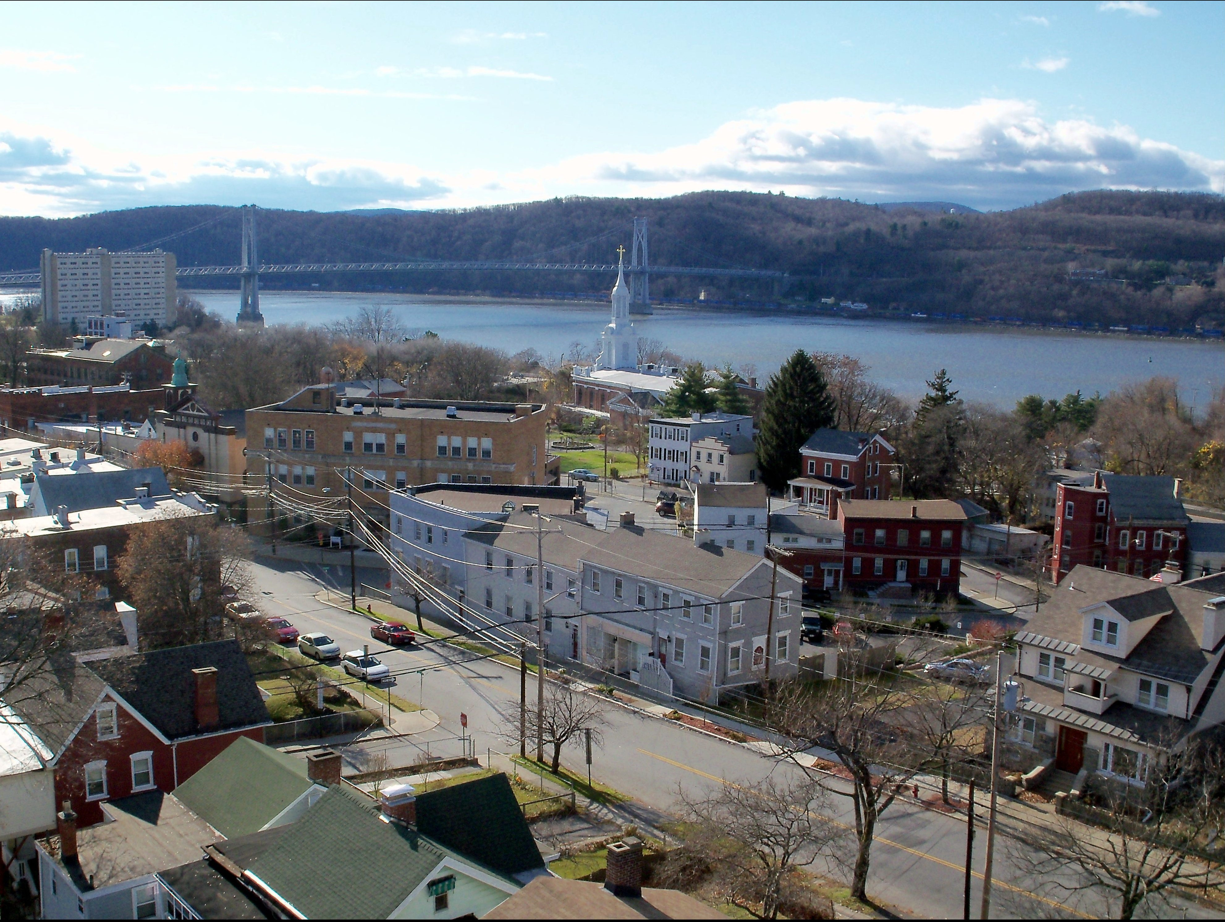 Walkway Over the Hudson, heading west. Looking just north of the Metro North Station